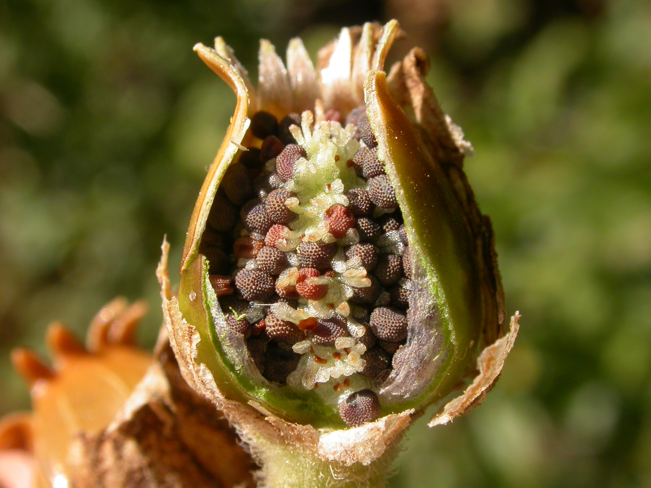 The capsule fruit with free central placentation is characterisitic of the family Caryophyllaceae.